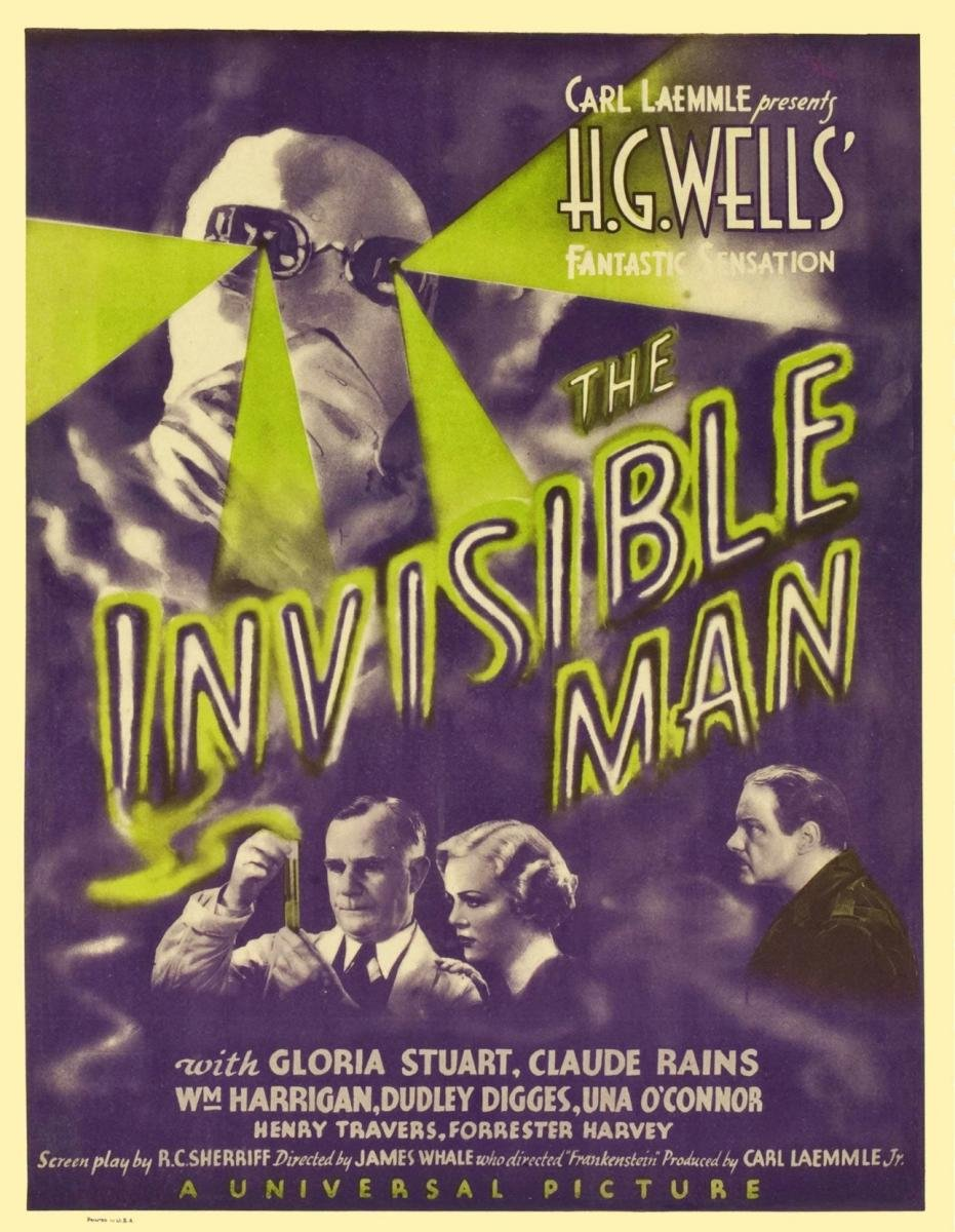 Original U.S. release poster for The Invisible Man (1933).